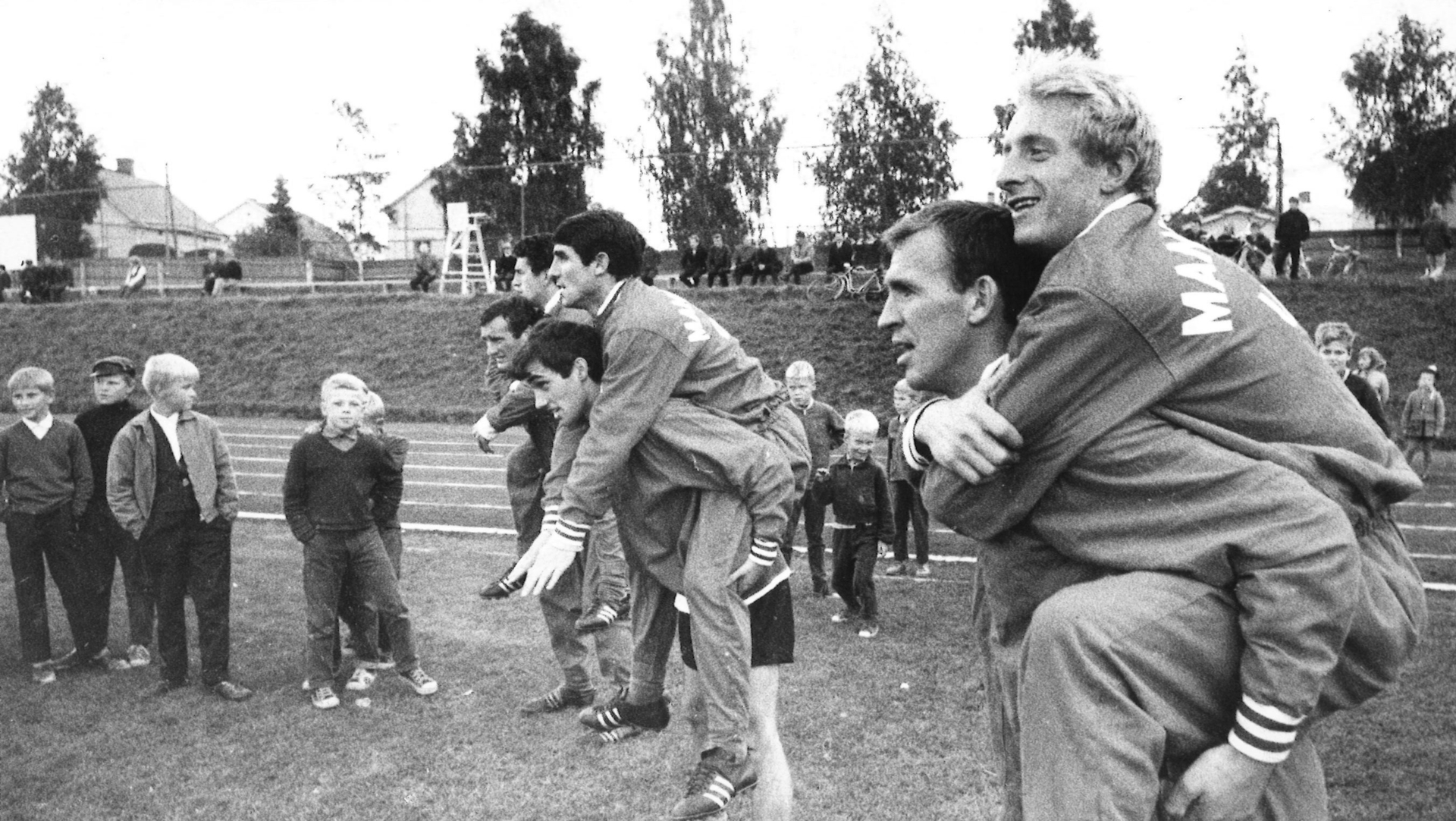 Photograph of some ManU players during their visit in Hämeenlinna, Finland. In front Pat Crerand carrying Denis Law; middle George Best carrying Tony Dunne; back Noel Cantwell carrying Pat Dunne.